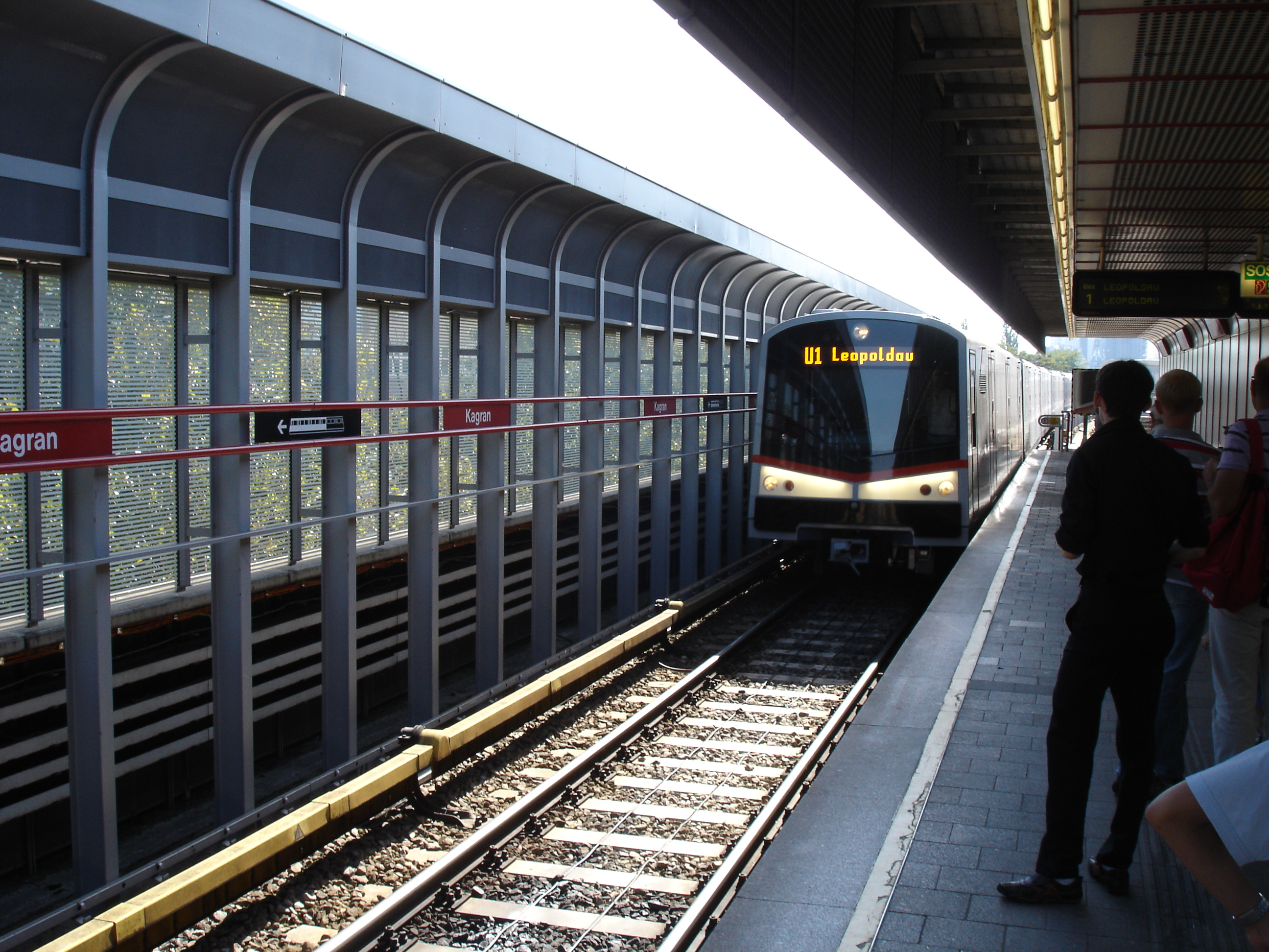 Vienna U-BahnLeopoldau-bound U1 train at Kagran Station